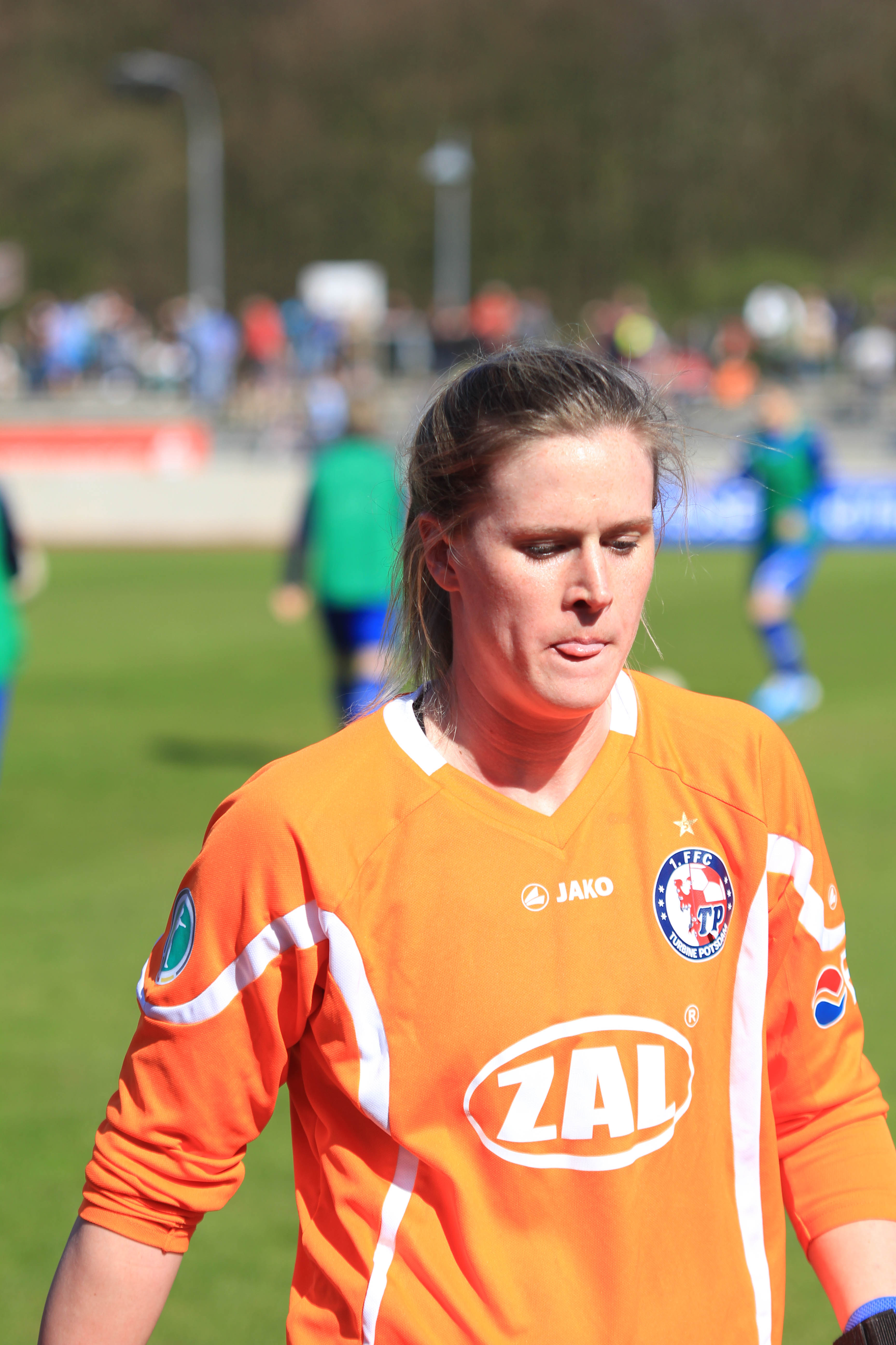 American soccer player Alyssa Naeher, Turbine Potsdam